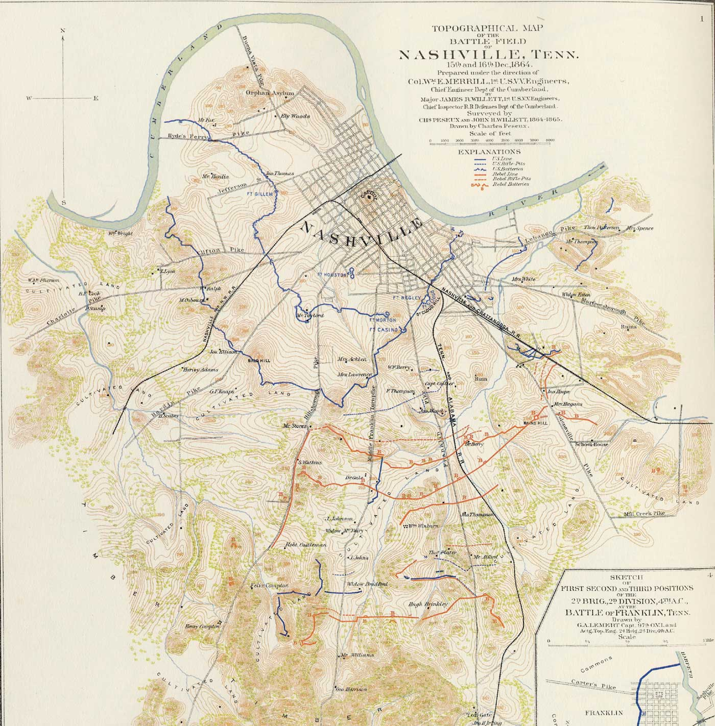 Topographical map of Nashville and surrounding area made during the American Civil War. Drawn by Charles Peseux under the direction of Col. William E. Merrill, Chief Engineer, Department of the Cumberland.